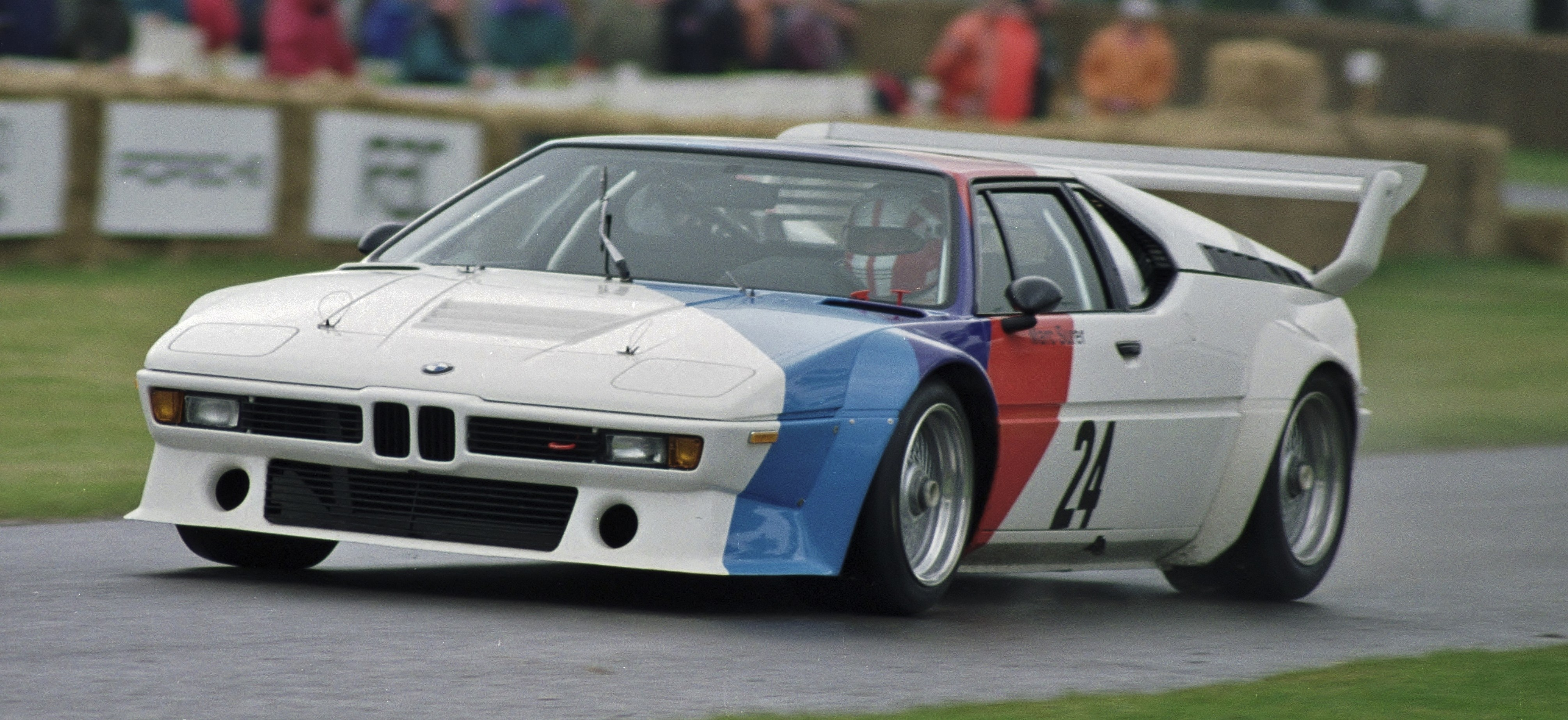 Marc Surer drives the BMW M1 Procar - 1998 Goodwood Festival of Speed